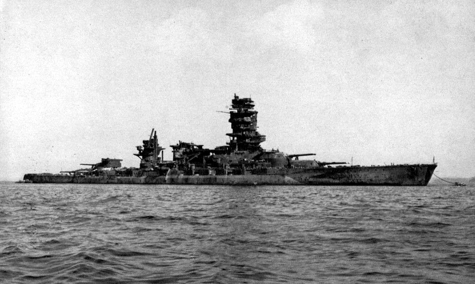 The Japanese battleship Nagato at anchor off the Yokosuka Naval Base, Japan, circa in September 1945.